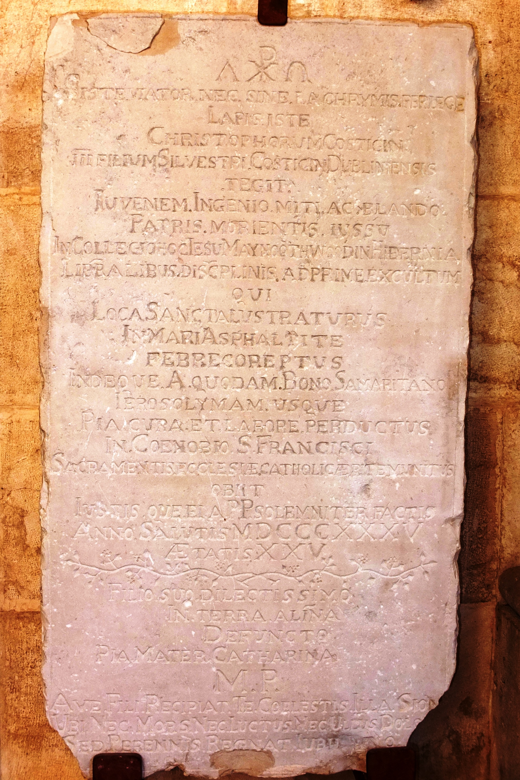 Gravestone of C. Costigin (1810-1835), Explorer of the Dead Sea